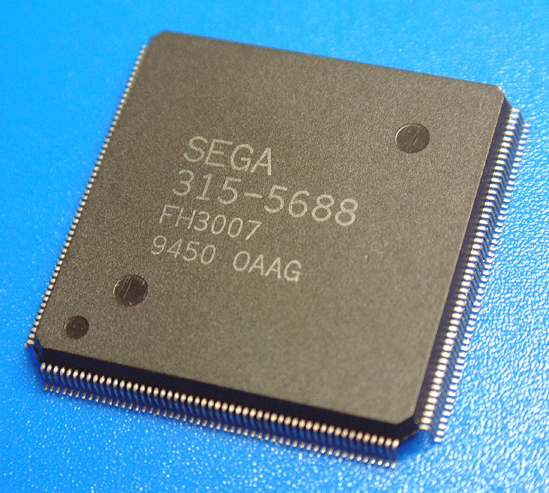 315-5688 SCU 1st version for SEGASATURN.